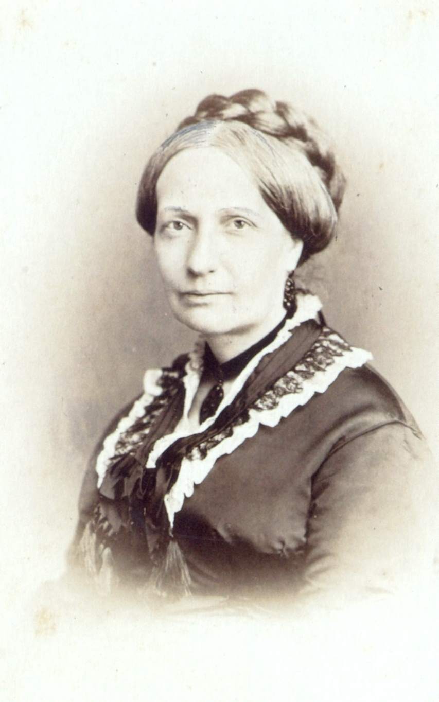 Brazilian Empress Teresa Cristina, c.1876.